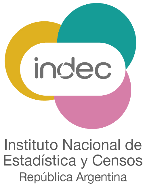 Logo of the National Institute of Statistics and Census of Argentina (INDEC).